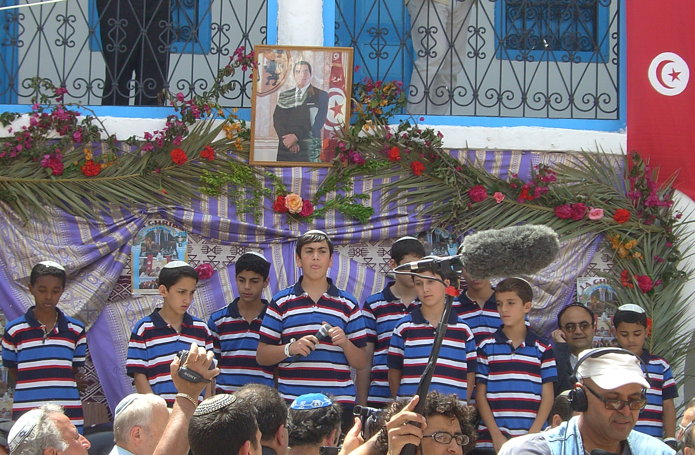 Chanan Avital and the Jerusalem Boys Choir performing in Djerba, Tunisia, 2007.